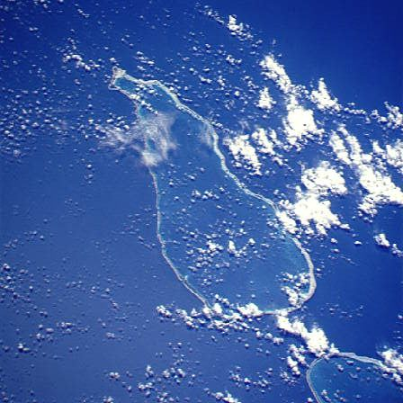 Rangiroa Atoll, Tuamotu Archipelago, French Polynesia